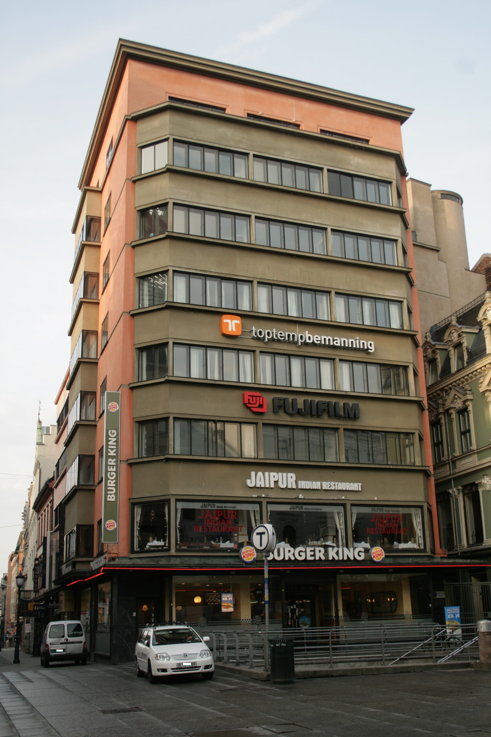 Horngården, a business building at Egertorget/Karl Johan (main street), Oslo; built 1930, architect Frithjof Platou